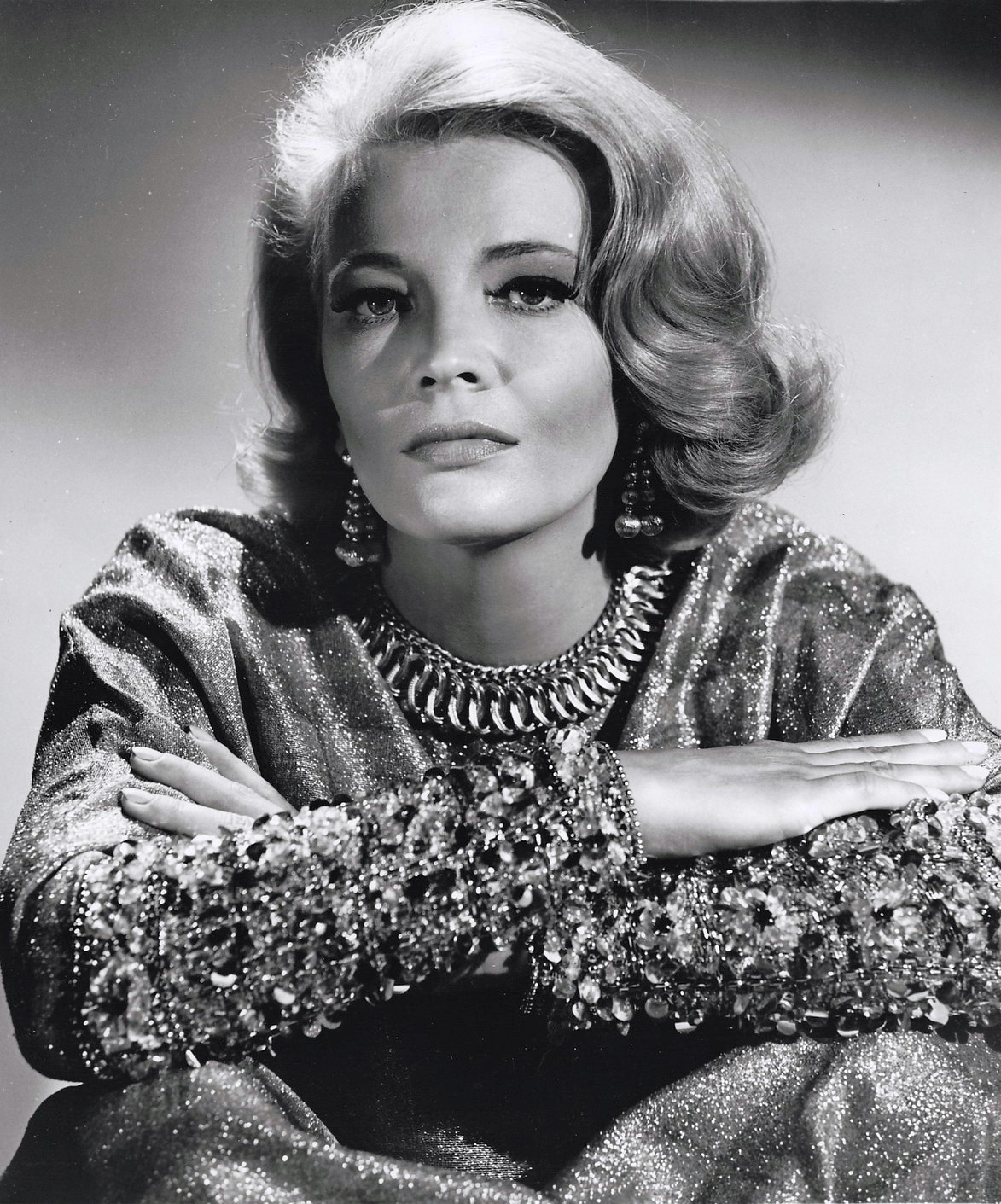 Publicity photo of Gena Rowlands for film Tony Rome.